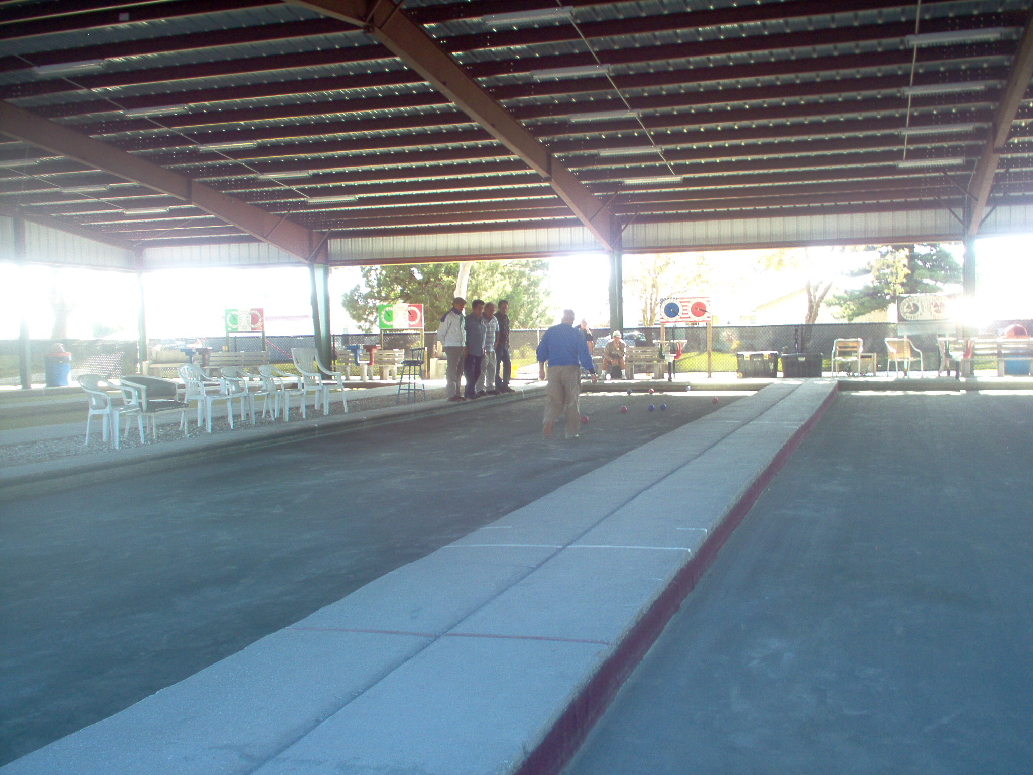 Bocce play in Cape Coral, Florida, 2007